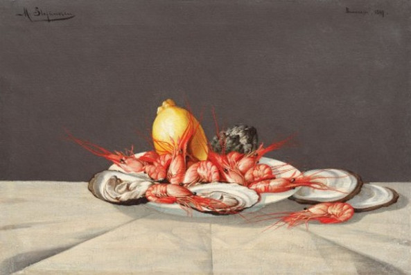 Natură statică cu creveți și scoici